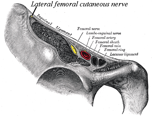 Image:Gray546.png with lateral femoral cutaneous nerve emphasized